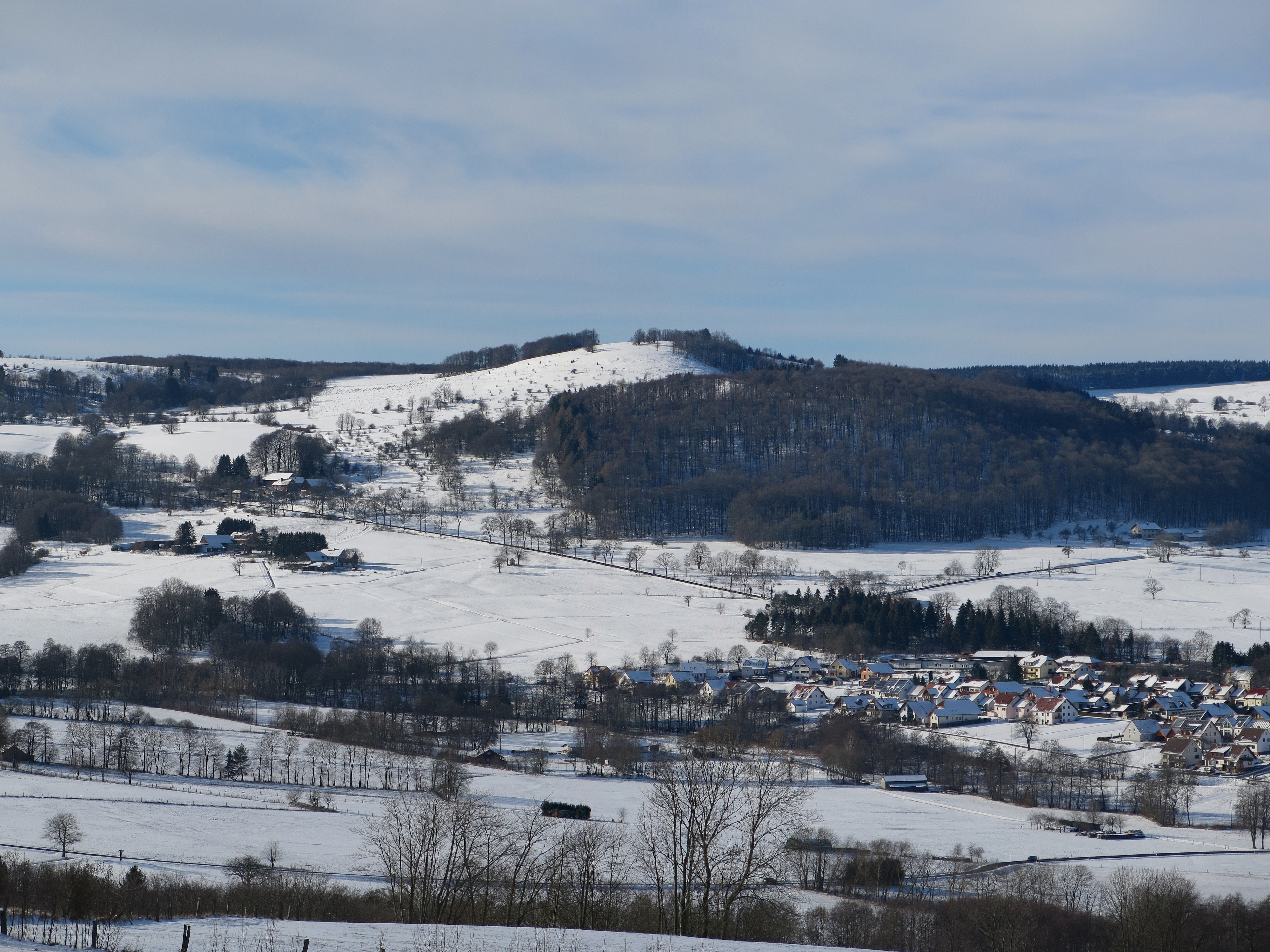 Mathesberg in the Rhön Montains seen from northeast.